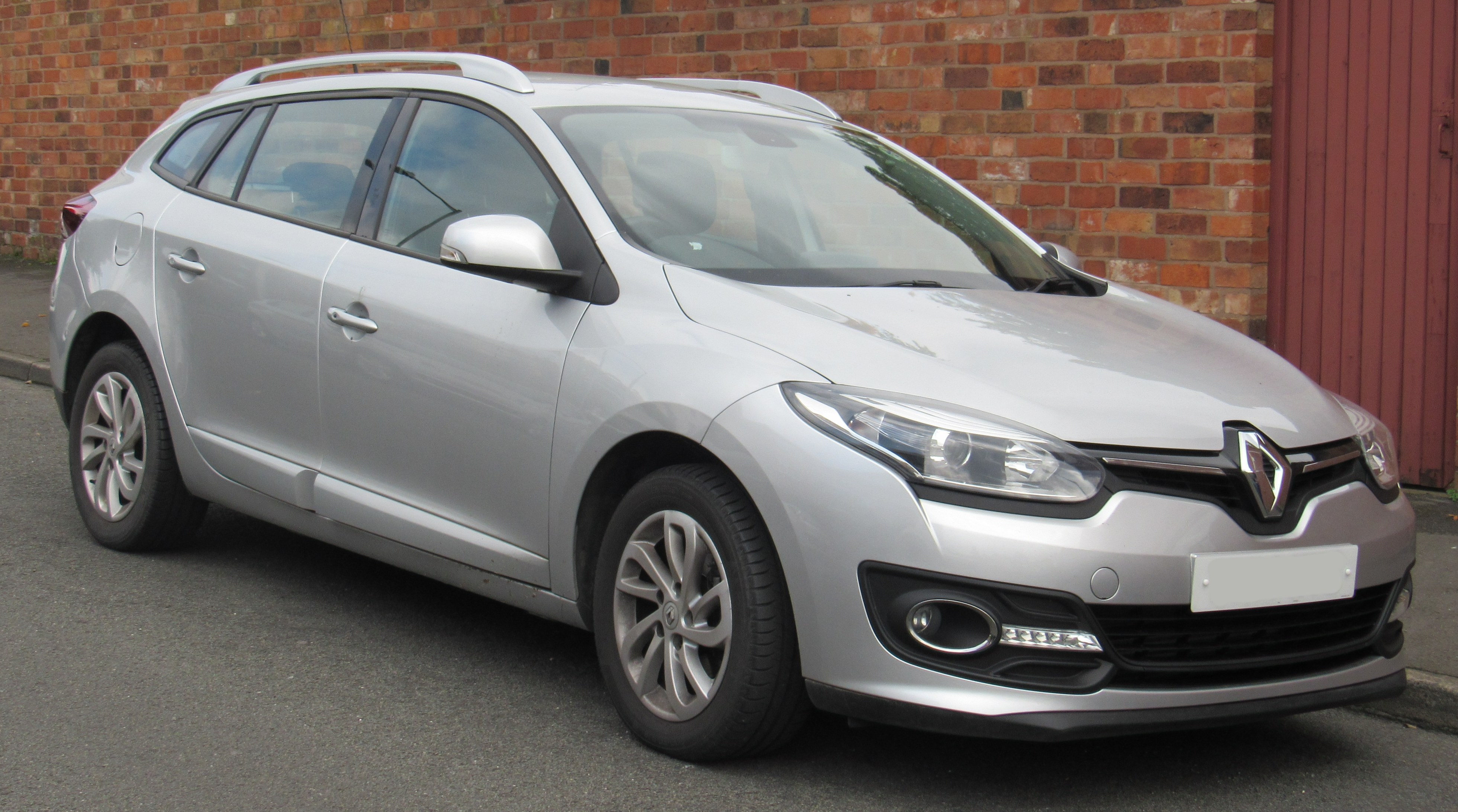 2014 Renault Megane D-QUE Estate 1.5 Second facelift Front Taken in Leamington Spa